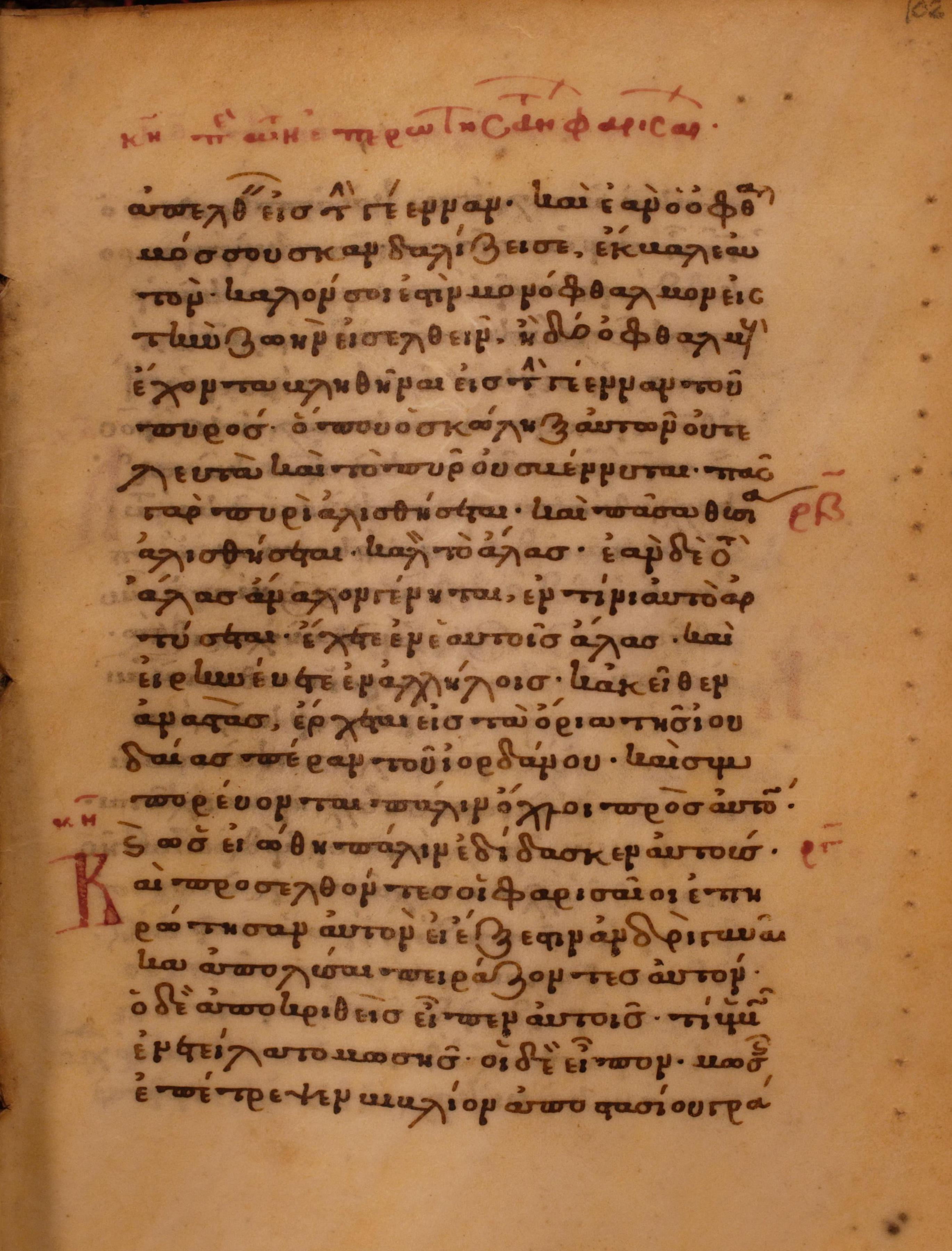 folio 102 recto with text Mark 10:43-10:4